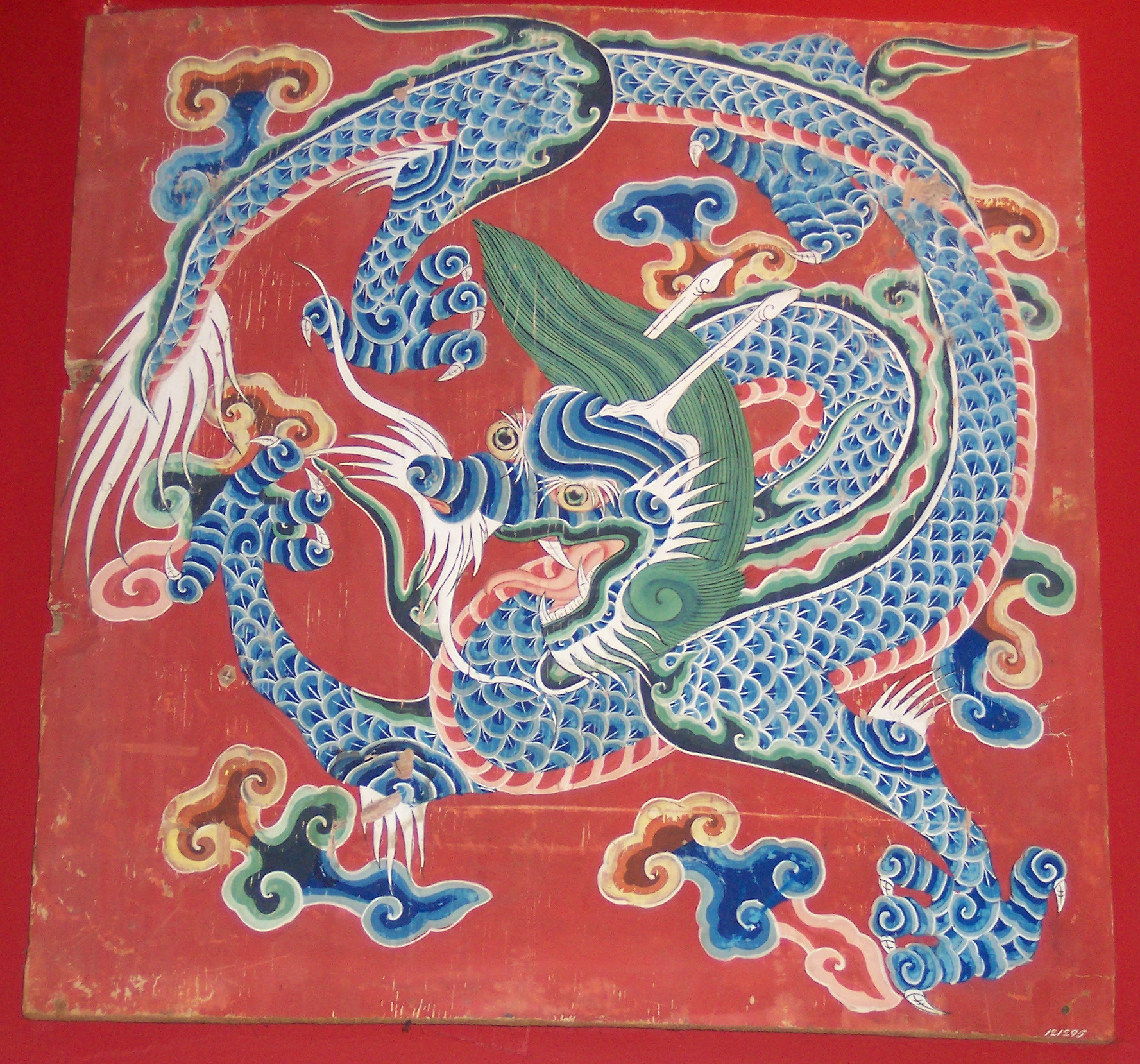 Dragon,Tibet can be seen at the Field Museum